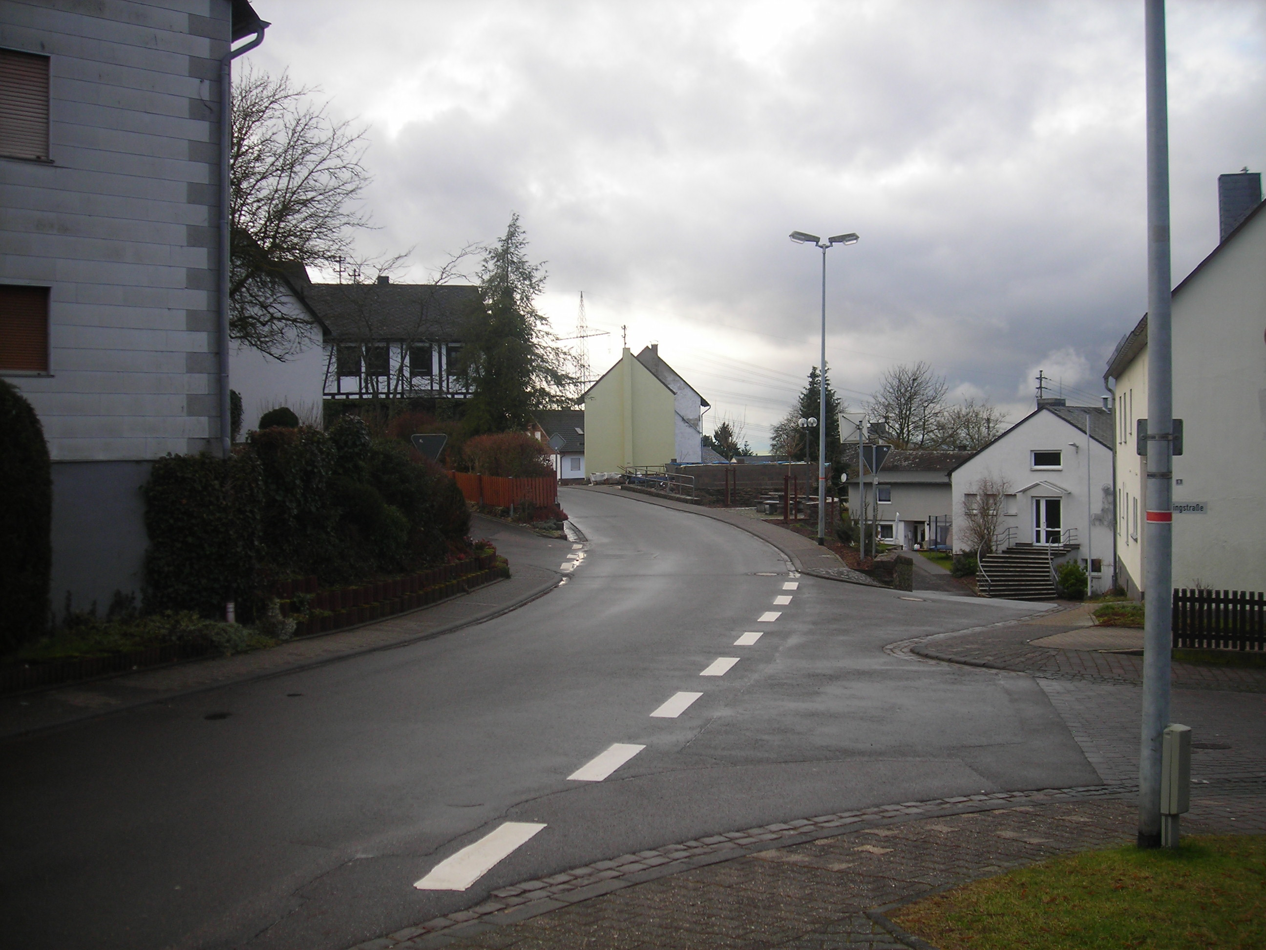 Village Ney in the Hunsrück landscape, Germany.